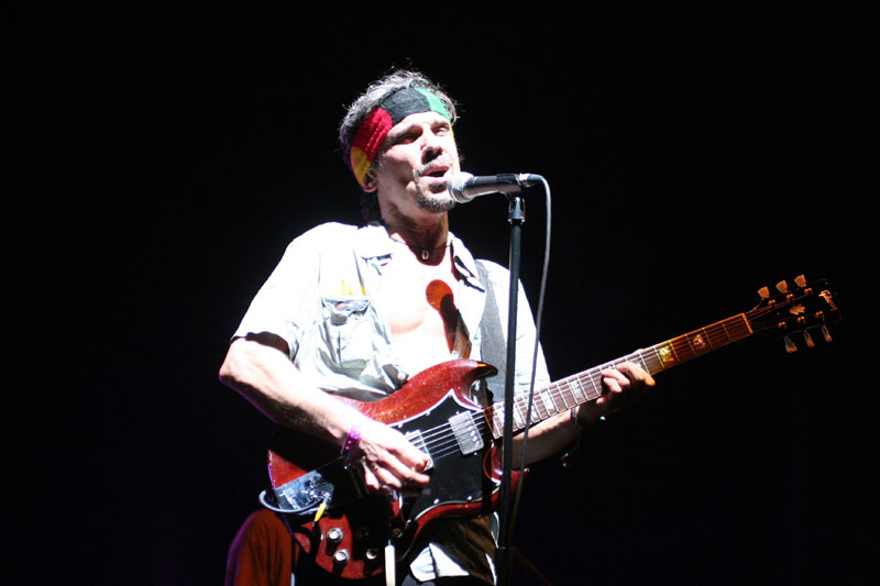 Manu Chao, Coachella 2007, Photo by Paul Familetti